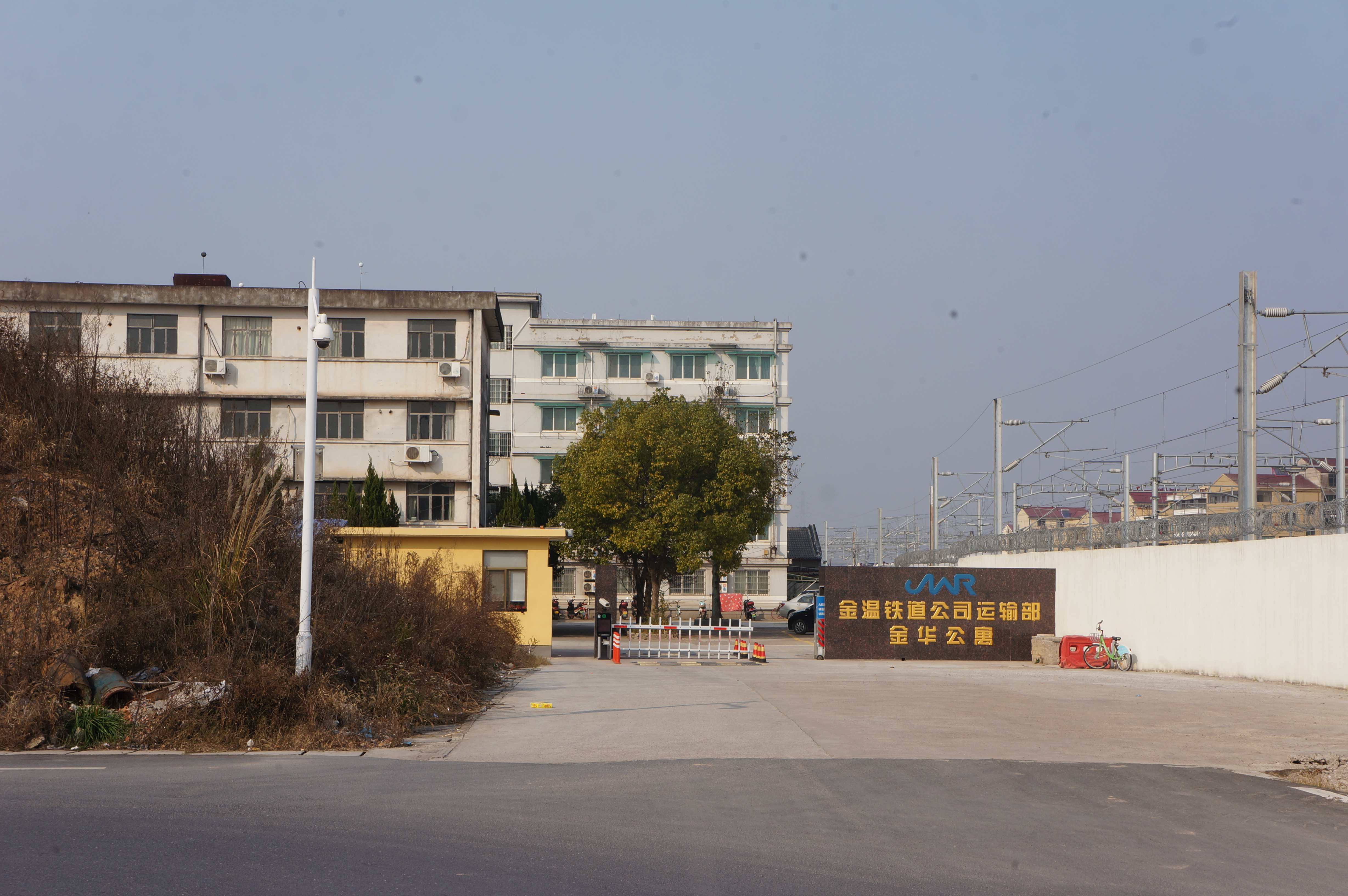 201712 JWR Jinhuanan Residence with the nameplate.